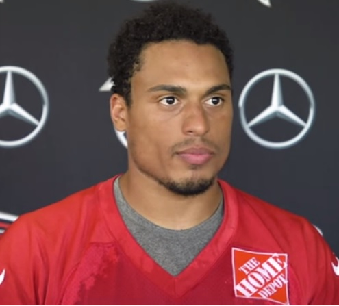 Isaiah Oliver addressed the media at the conclusion of day 3 of minicamp.